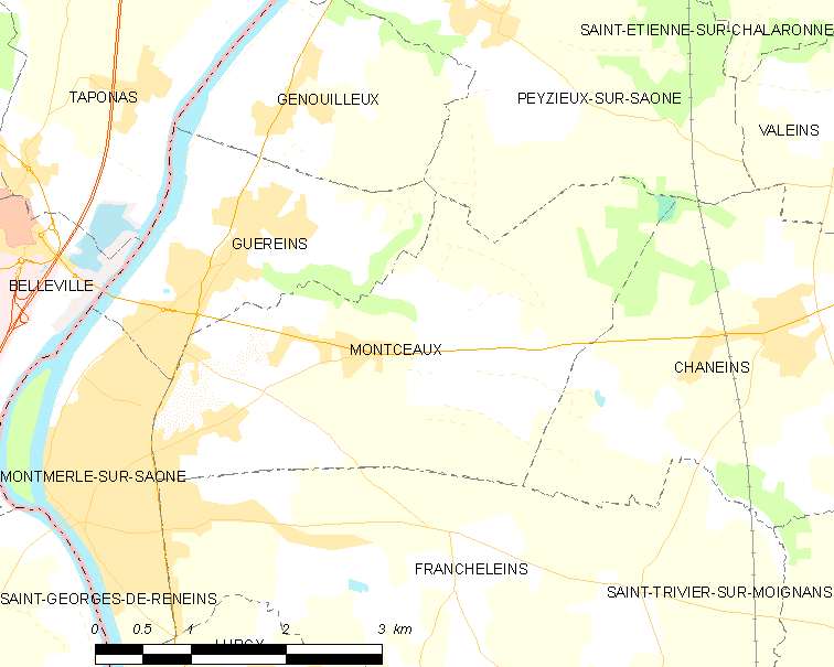 Map of French commune: Montceaux Map commune FR insee code 01258.png